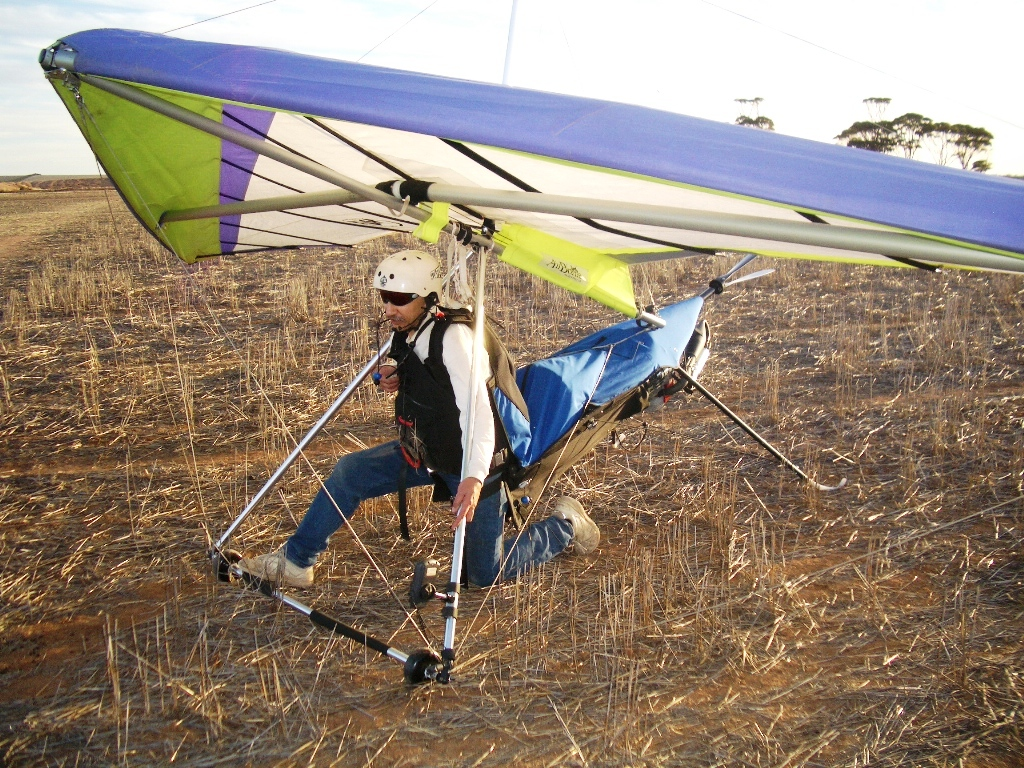 This photograph shows the NRG with an AirBorne Fun 160. The keel of the glider has to be cut short to prevent clashing with the propeller.